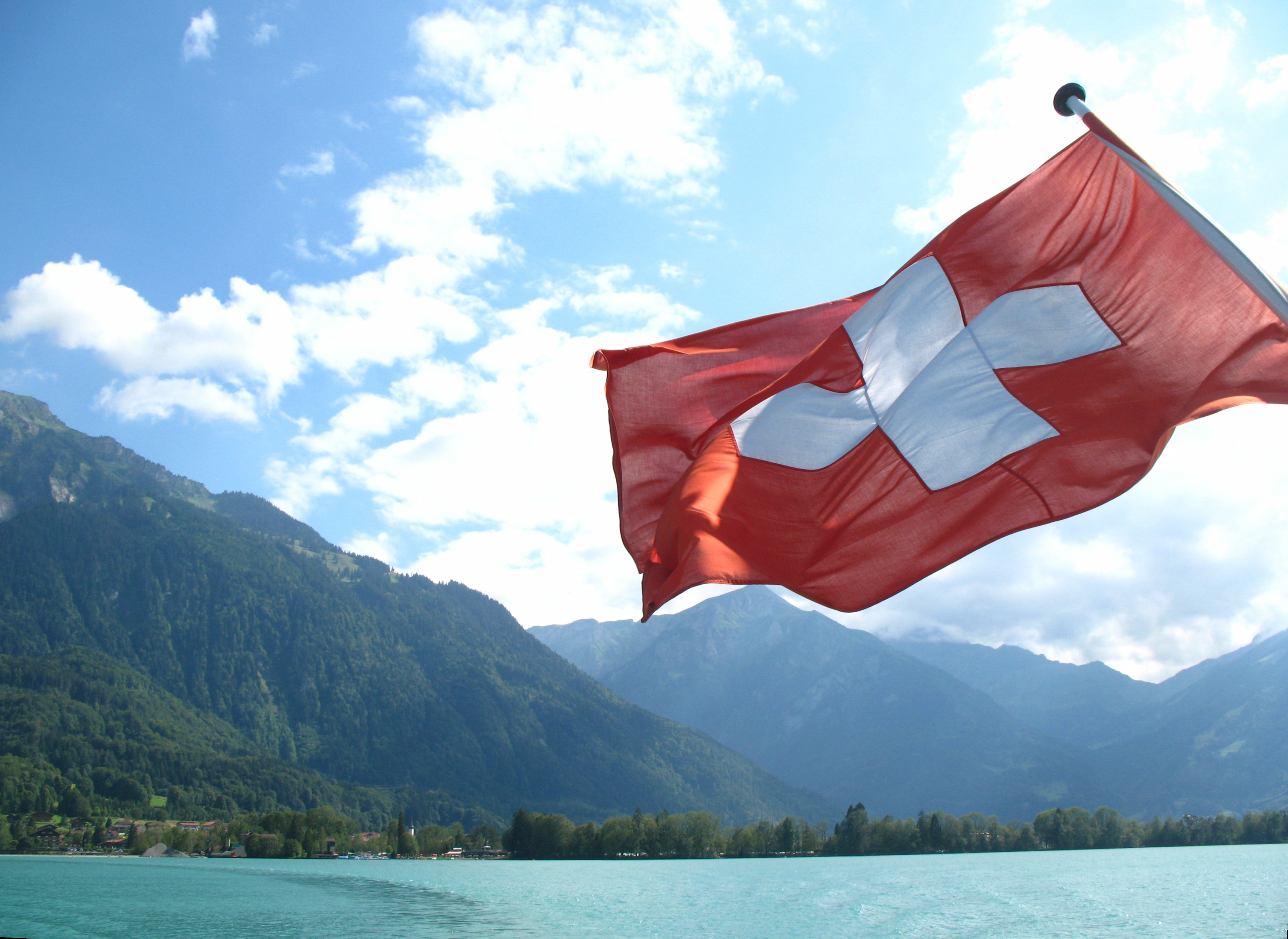 Bönigen, Switzerland